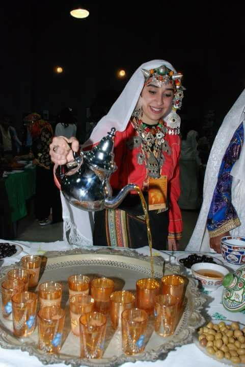 This is an image from Morocco